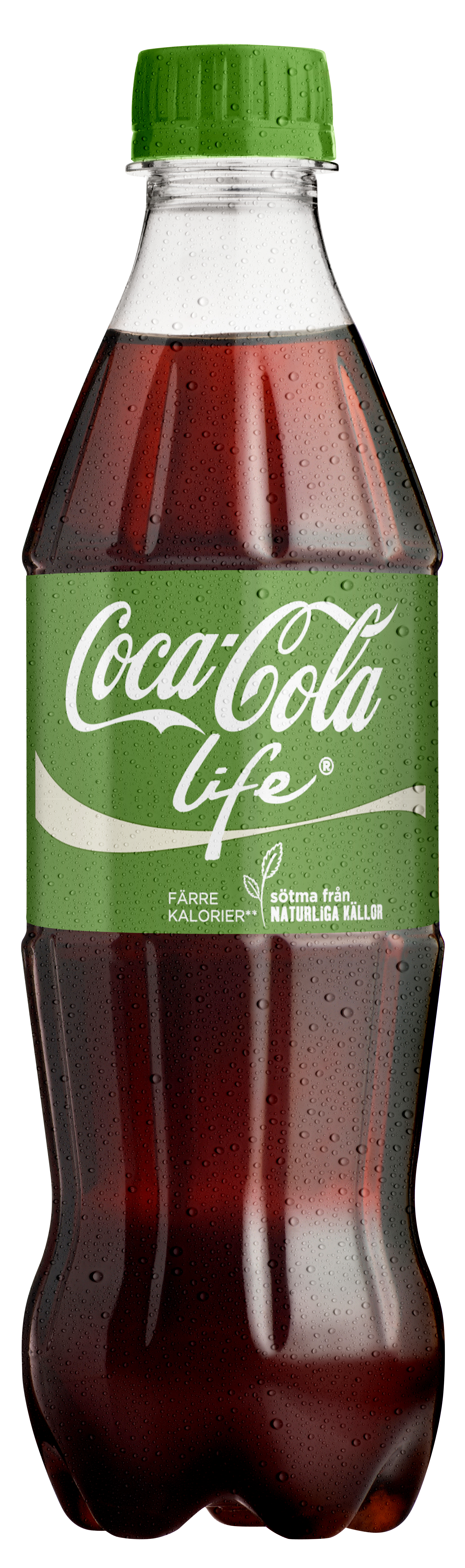 A 0.5 liter bottle Coca-Cola Life.